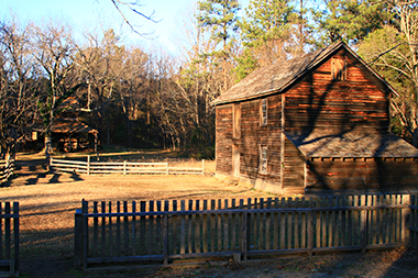 Photo of Duke Homestead tobacco barns in Durham, NC